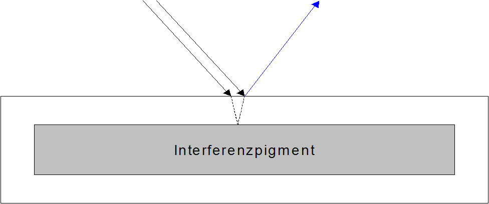 Behavior of an interference pigment with steep angle of light. The way of light is only a bit extended.